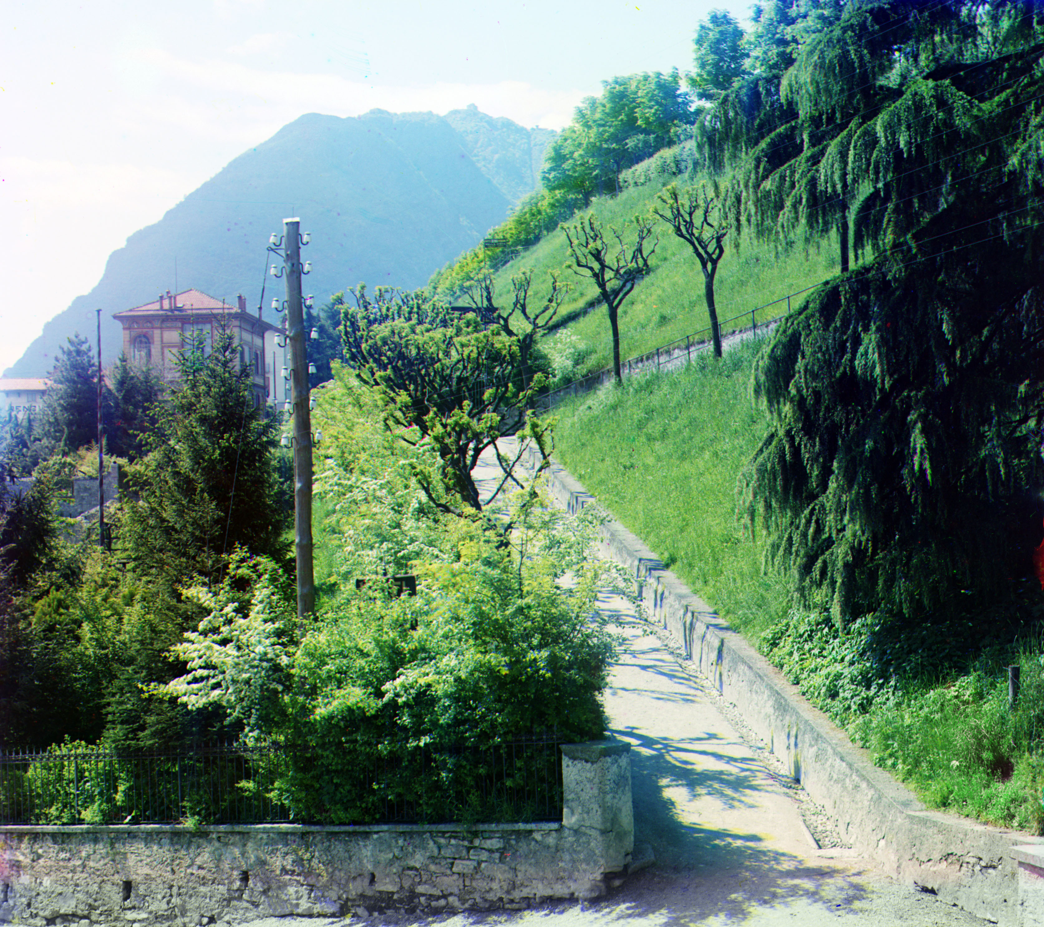 On the island of Capri